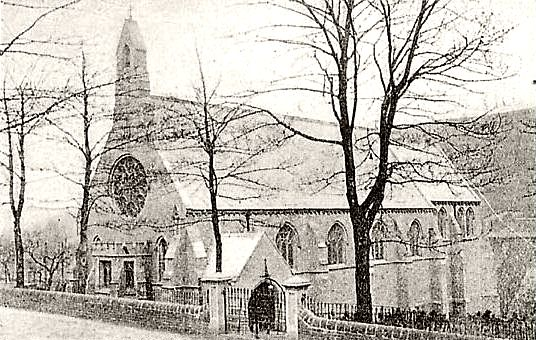 Church of St John the Divine, Rochdale Road, Triangle, Thorpe, Halifax, West Yorkshire. Designed in 1880 of reinforced concrete by William Swinden Barber, demolished 1973.